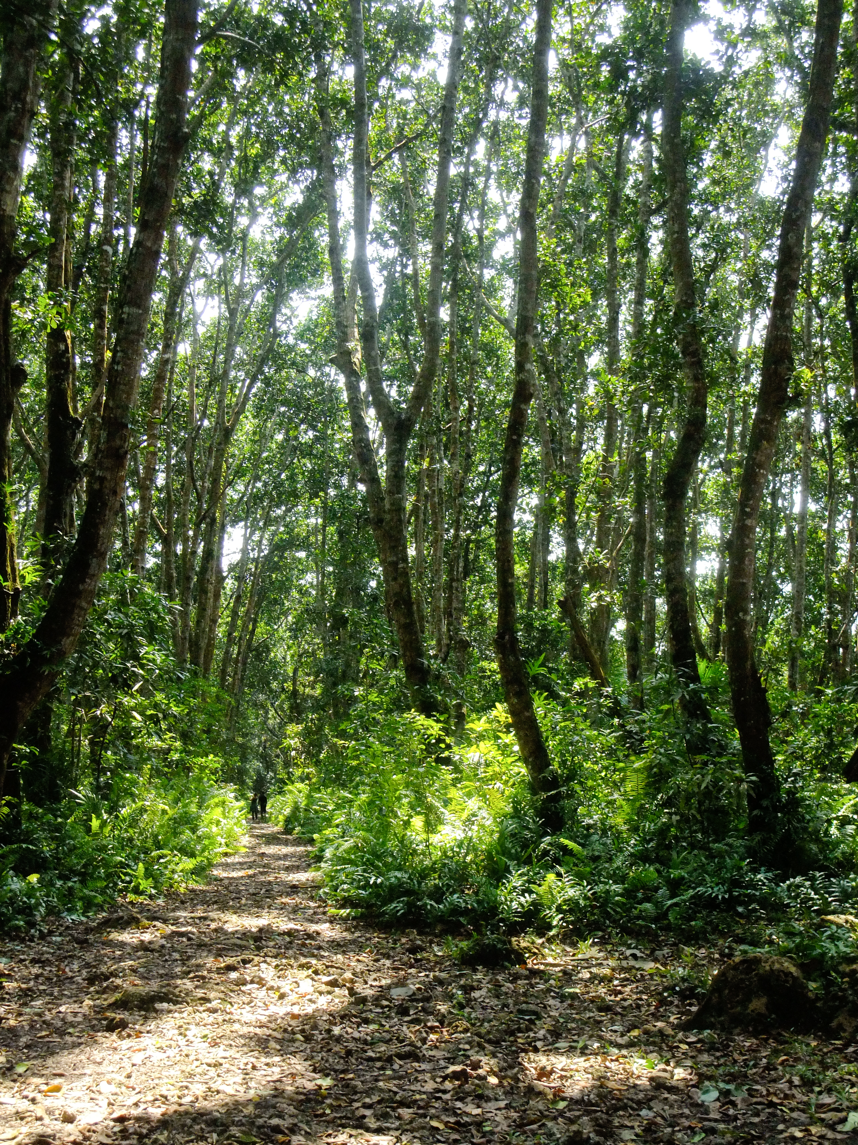 Jozani Chwaka National Park